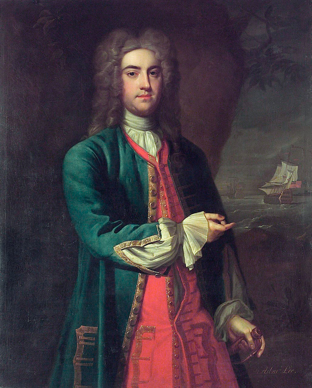 Vice-Admiral Fitzroy Henry Lee (1699-1750) oil on canvas 127 x 101.6 cm ca. 1725 inscribed b.r.: Adml. Lee